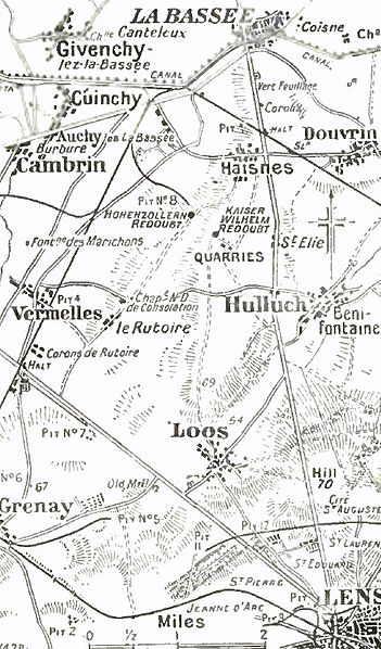 Map of the Lens and La Bassee areas, September 1915